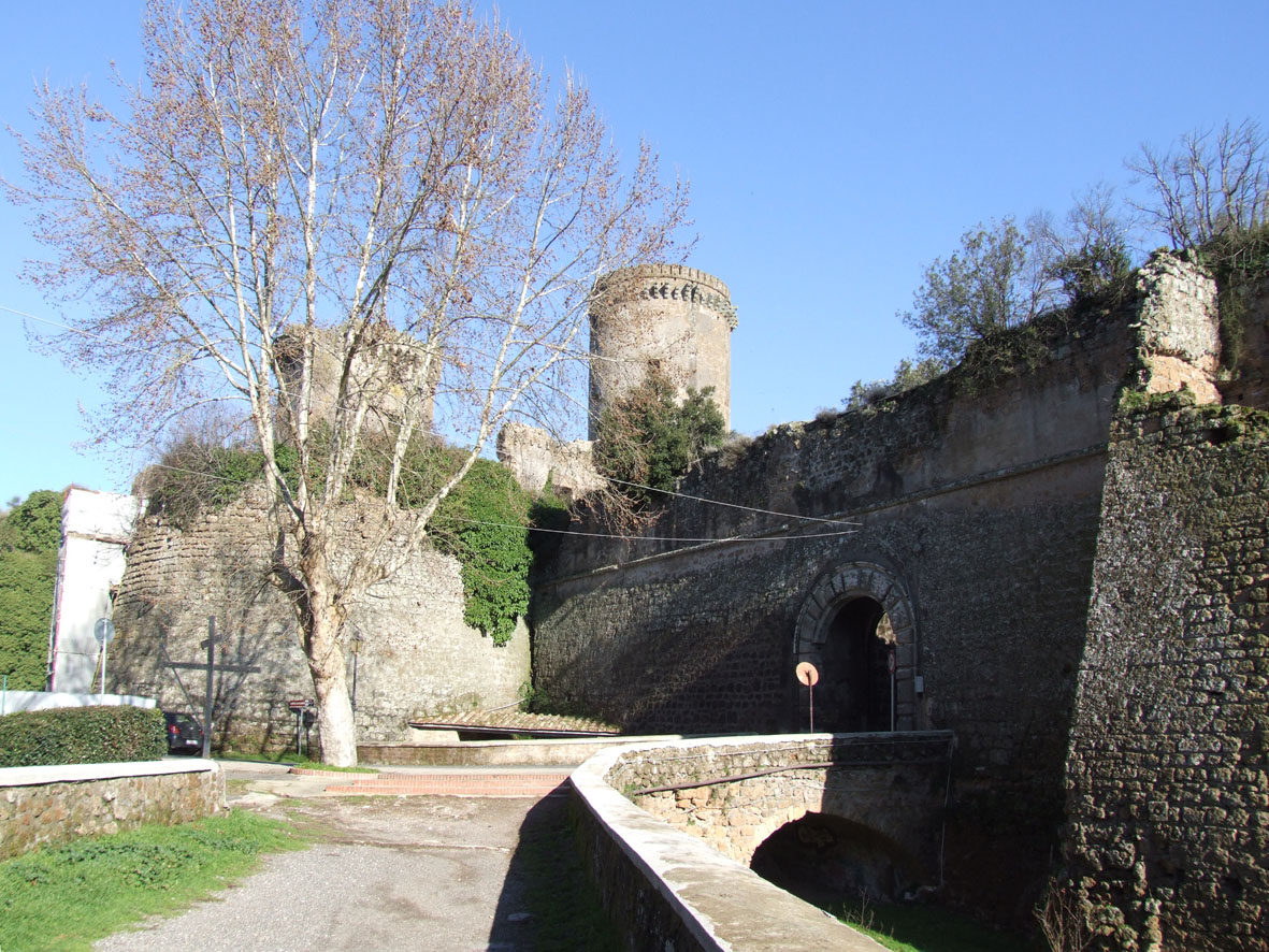 Nepi, Province of Viterbo, Italy, cstle of Borgia